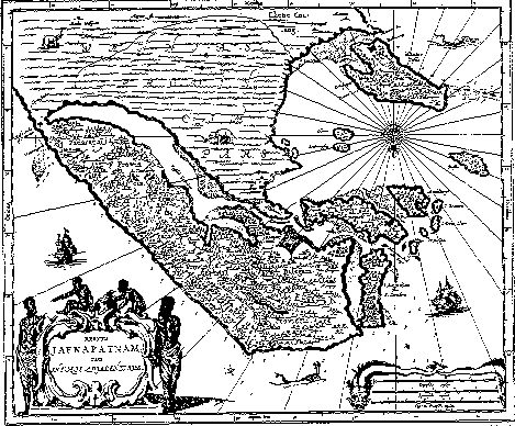 Map of the Kingdom of Jaffnapatnum